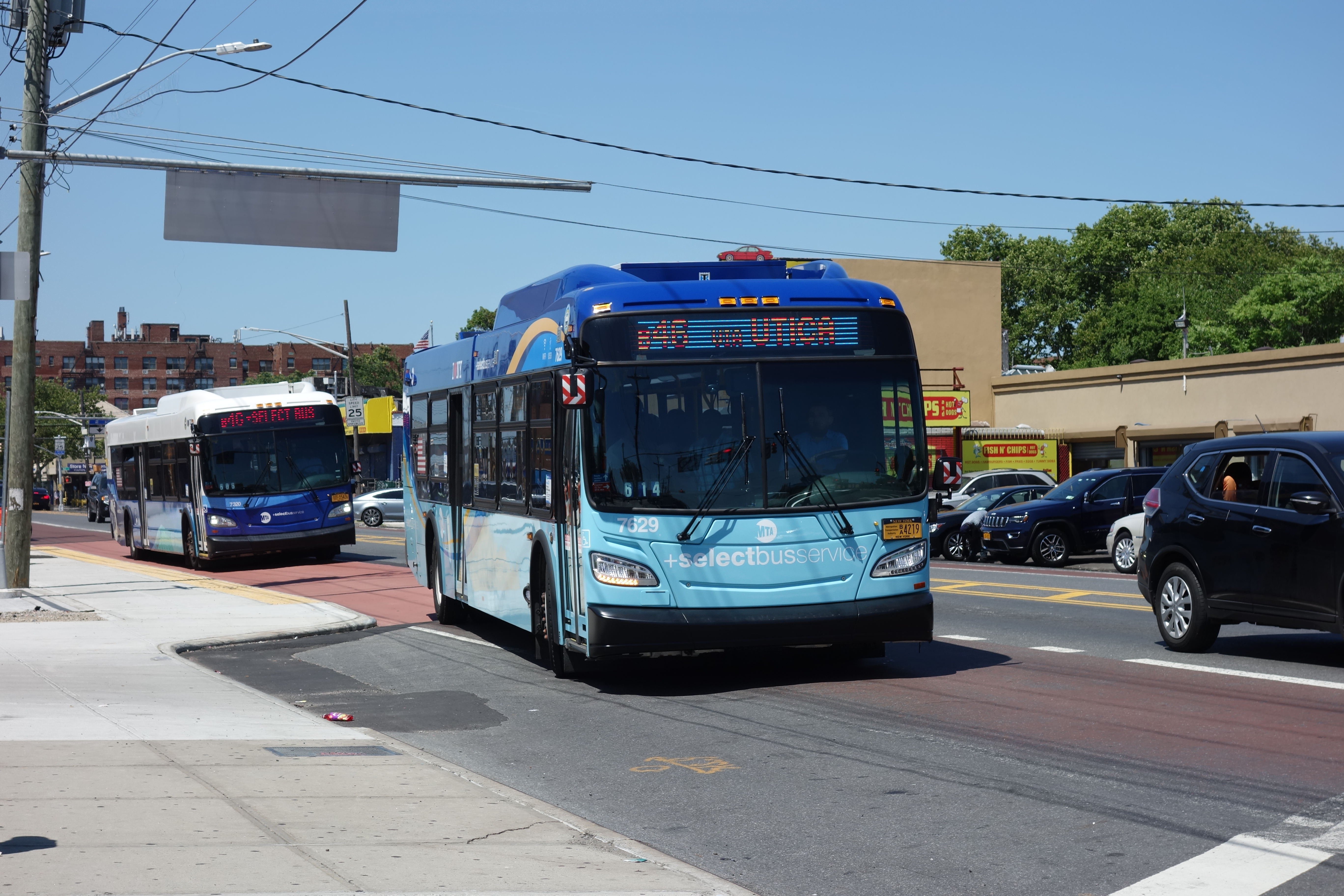 A Kings Plaza-bound B46 SBS bus, part of a cavalcade of three B46 SBSs, pulling up to a stop at Utica Avenue and Flatlands Avenue in Flatlands, Brooklyn. I originally was skeptical of the new MTA bus color scheme, but compared to the one behind it it is much better. Much, much better.